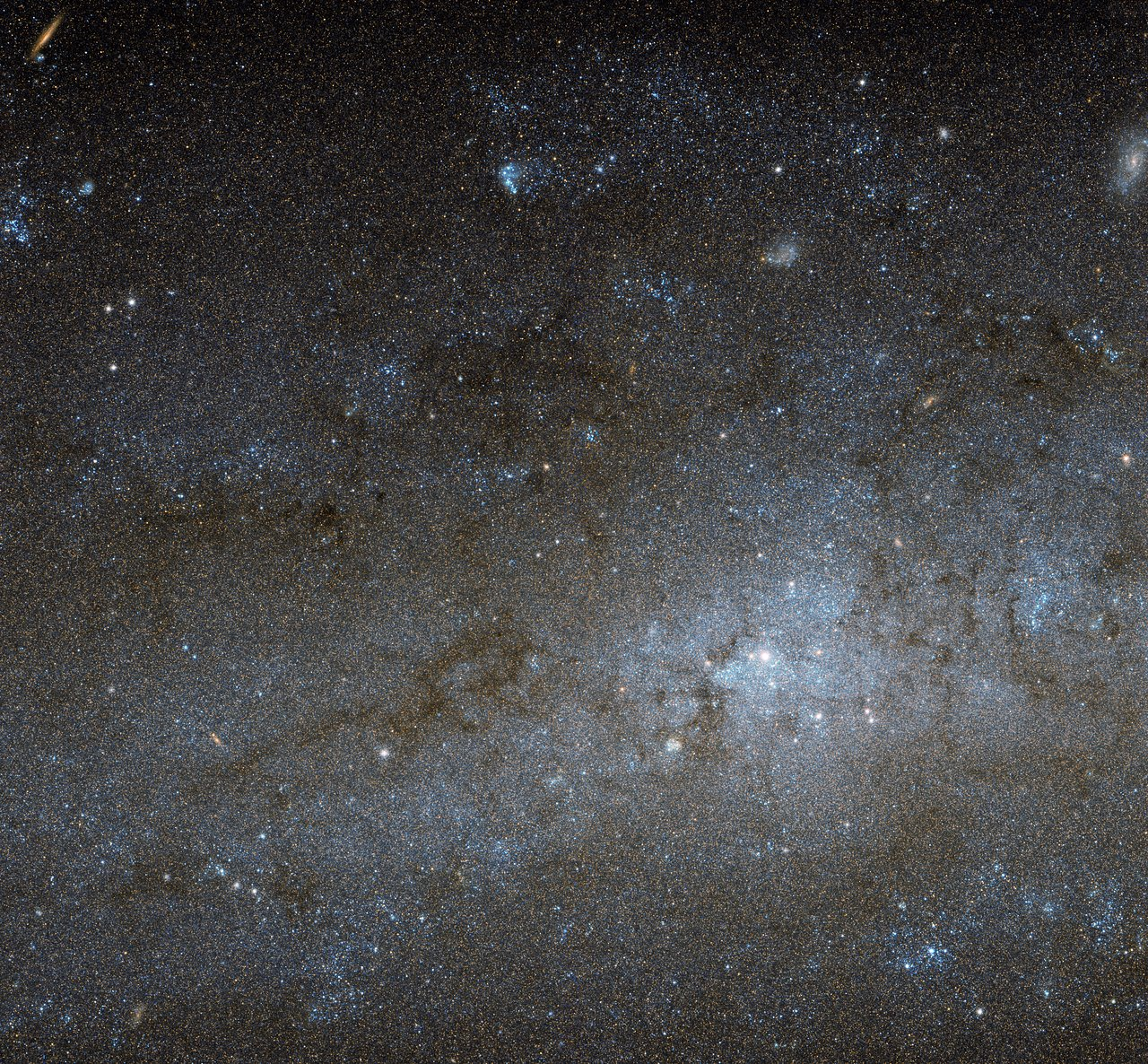 This Hubble image shows the central region of a spiral galaxy known as NGC 247. NGC 247 is a relatively small spiral galaxy in the southern constellation of Cetus (The Whale). Lying at a distance of around 11 million light-years from us, it forms part of the Sculptor Group, a loose collection of galaxies that also contains the more famous NGC 253 (otherwise known as the Sculptor Galaxy). NGC 247’s nucleus is visible here as a bright, whitish patch, surrounded by a mixture of stars, gas and dust. The dust forms dark patches and filaments that are silhouetted against the background of stars, while the gas has formed into bright knots known as H II regions, mostly scattered throughout the galaxy’s arms and outer areas. This galaxy displays one particularly unusual and mysterious feature — it is not visible in this image, but can be seen clearly in wider views of the galaxy, such as this picture from ESO’s MPG/ESO 2.2-metre telescope. The northern part of NGC 247’s disc hosts an apparent void, a gap in the usual swarm of stars and H II regions that spans almost a third of the galaxy’s total length. There are stars within this void, but they are quite different from those around it. They are significantly older, and as a result much fainter and redder. This indicates that the star formation taking place across most of the galaxy’s disc has somehow been arrested in the void region, and has not taken place for around one billion years. Although astronomers are still unsure how the void formed, recent studies suggest it might have been caused by gravitational interactions with part of another galaxy.